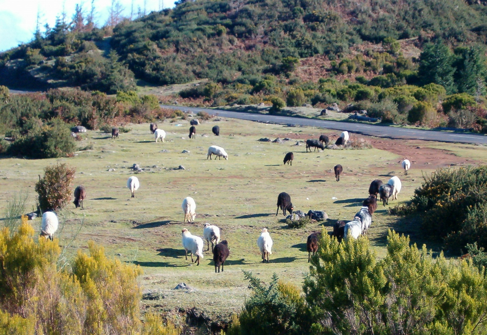 Pasture, Madeira island, 2006